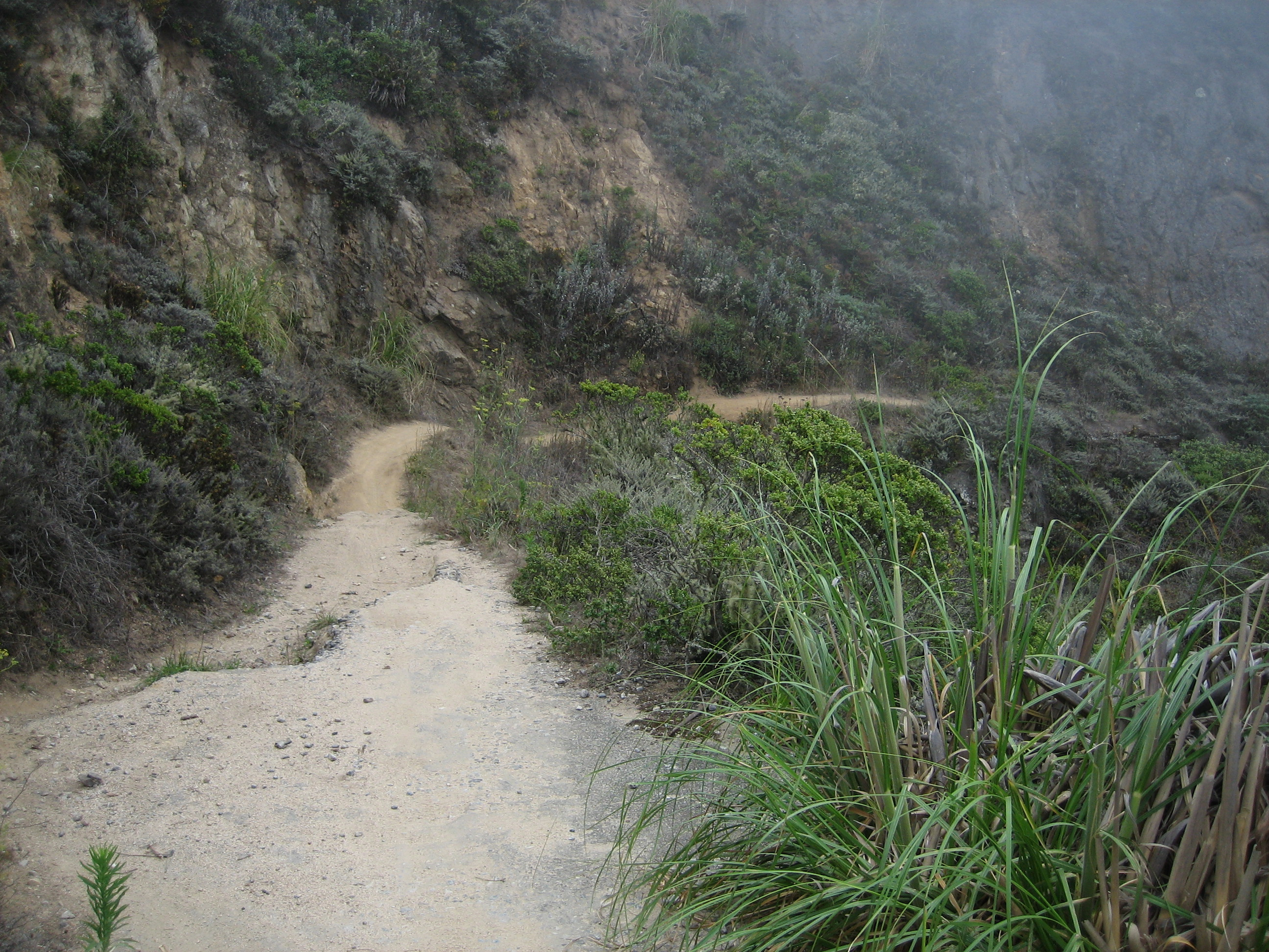 Some parts the old Pedro Mountain Road have totally vanished, leaving a single-track trail